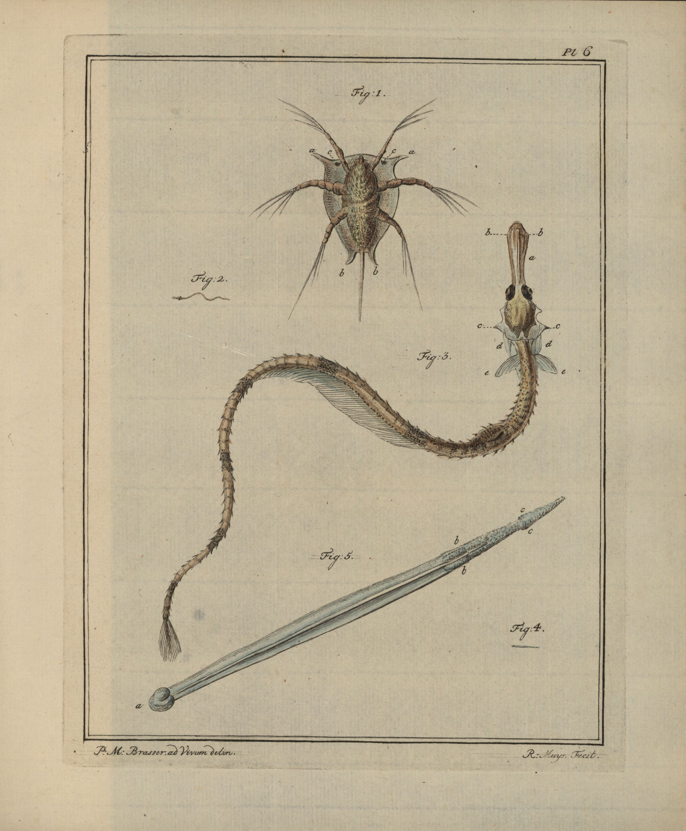 species as recognized by World Register of Marine Species: 1. Balanus balanoides accepted as Semibalanus balanoides (Linnaeus, 1758) 2. - 3. Syngnathus acus Linnaeus, 1758 4. - 5. Sagitta setosa J. Müller, 1847 accepted as Parasagitta setosa (Müller, 1847)